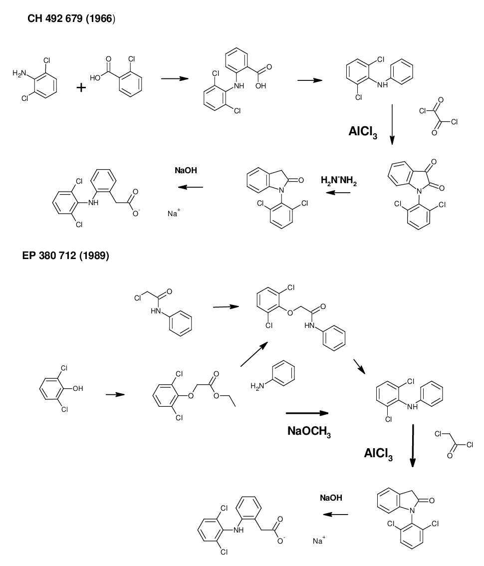 relevant syntheses of Diclofenac